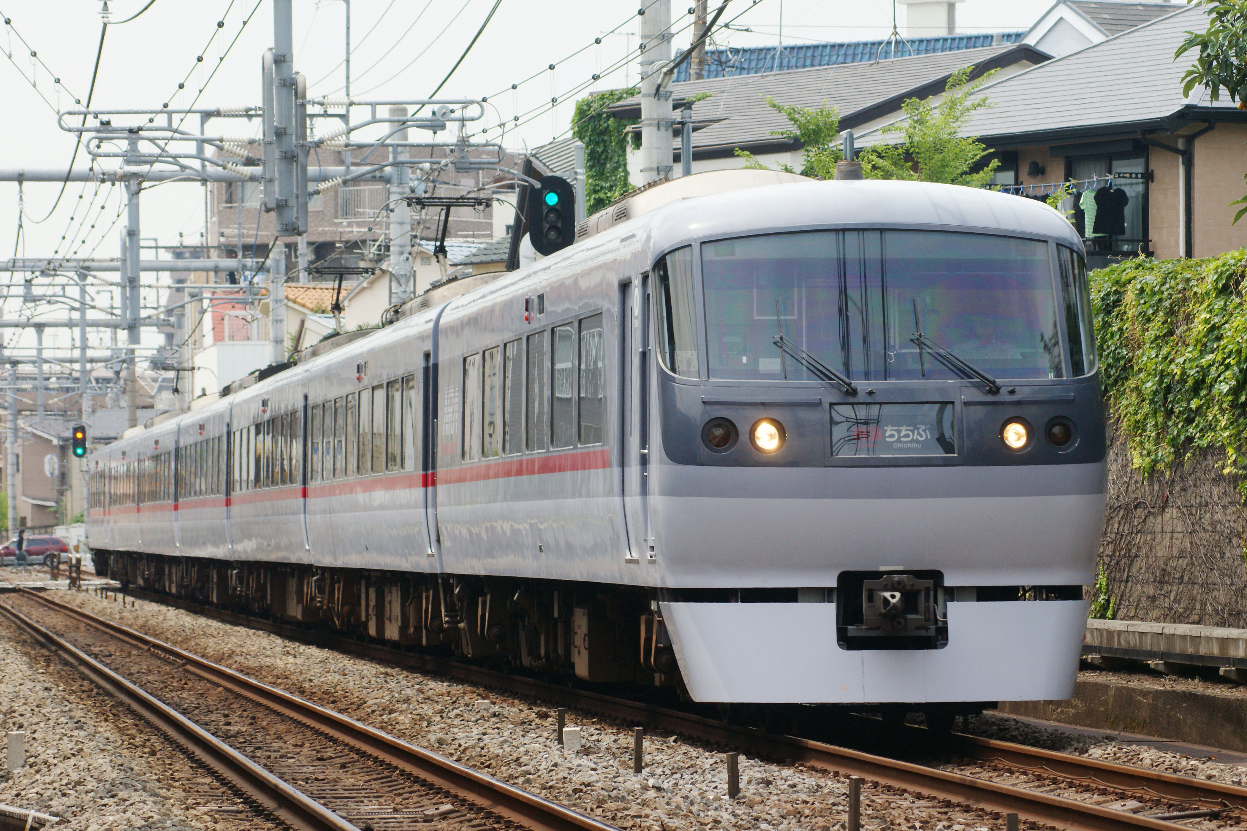 A Seibu Railway 10000 series EMU on a Chichibu limited express service on the Seibu Ikebukuro Line